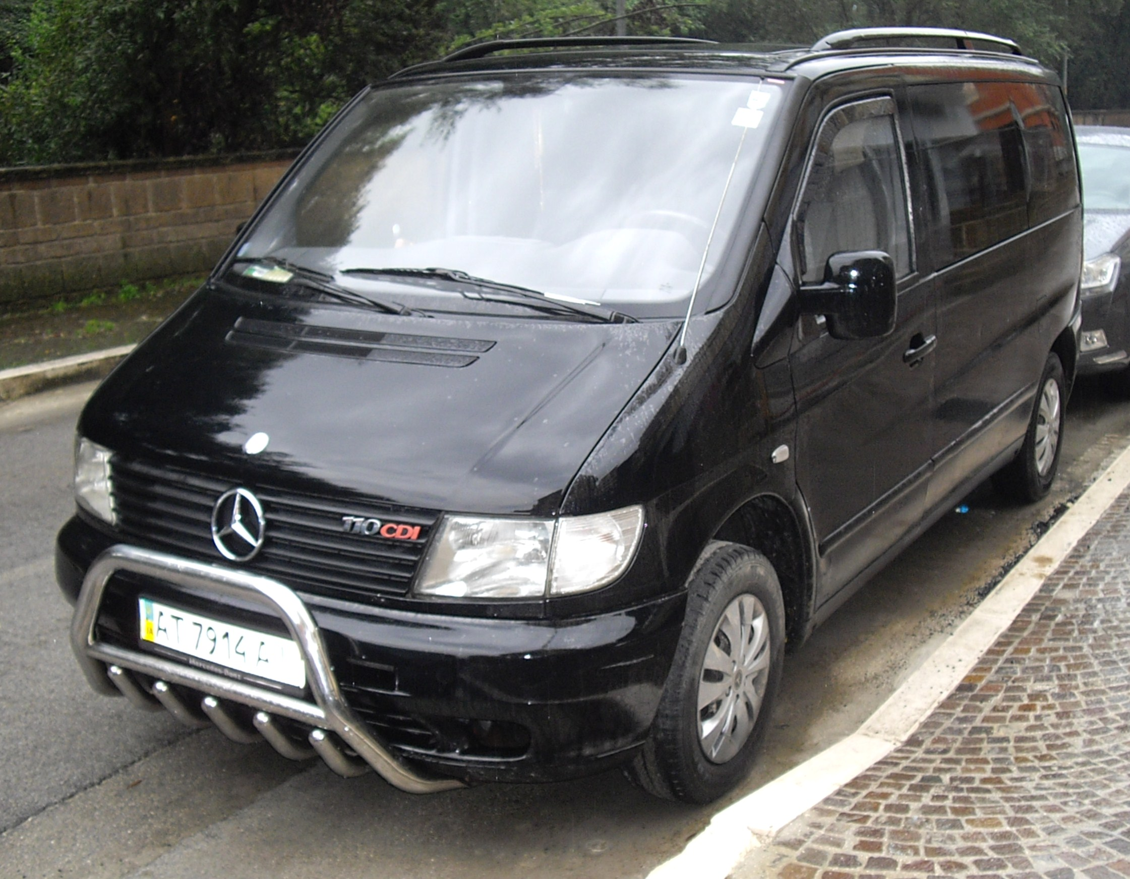 Mercedes-Benz Vito W638